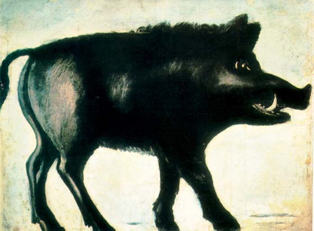 A Black Wild Boar